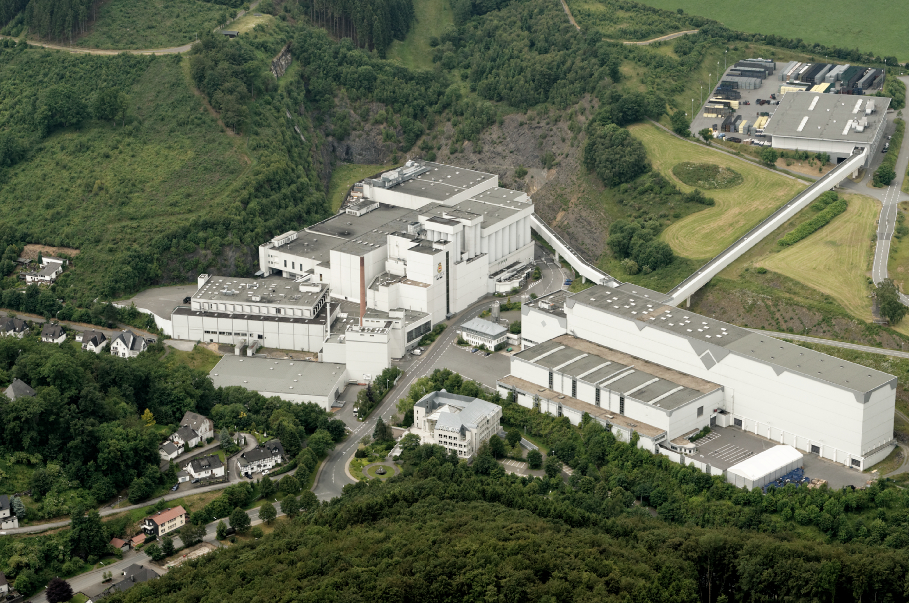 Meschede-Grevenstein: Veltinsbrauerei (Fotoflug Sauerland Nord) The making of this document was supported by the Community-Budget of Wikimedia Germany.